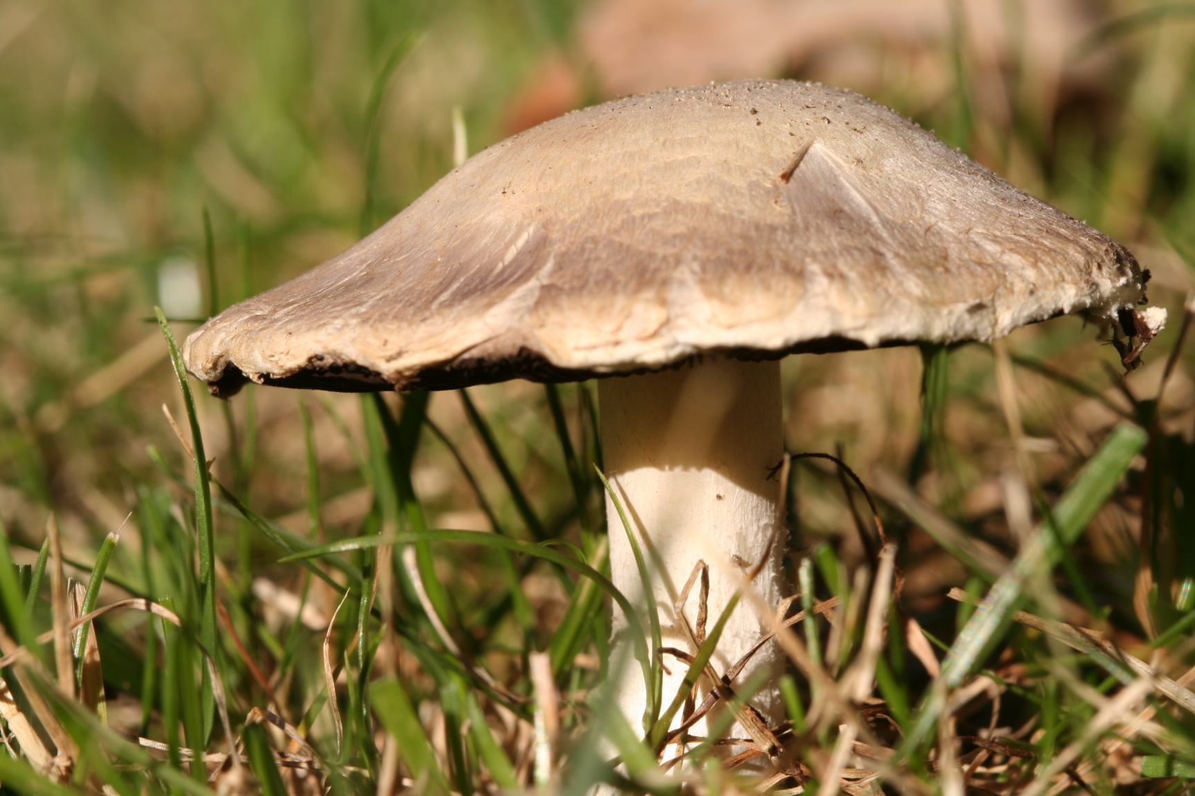 Agaricus campestris in a French garden near Paris. Identification note: Spores 7×4.5 microns.